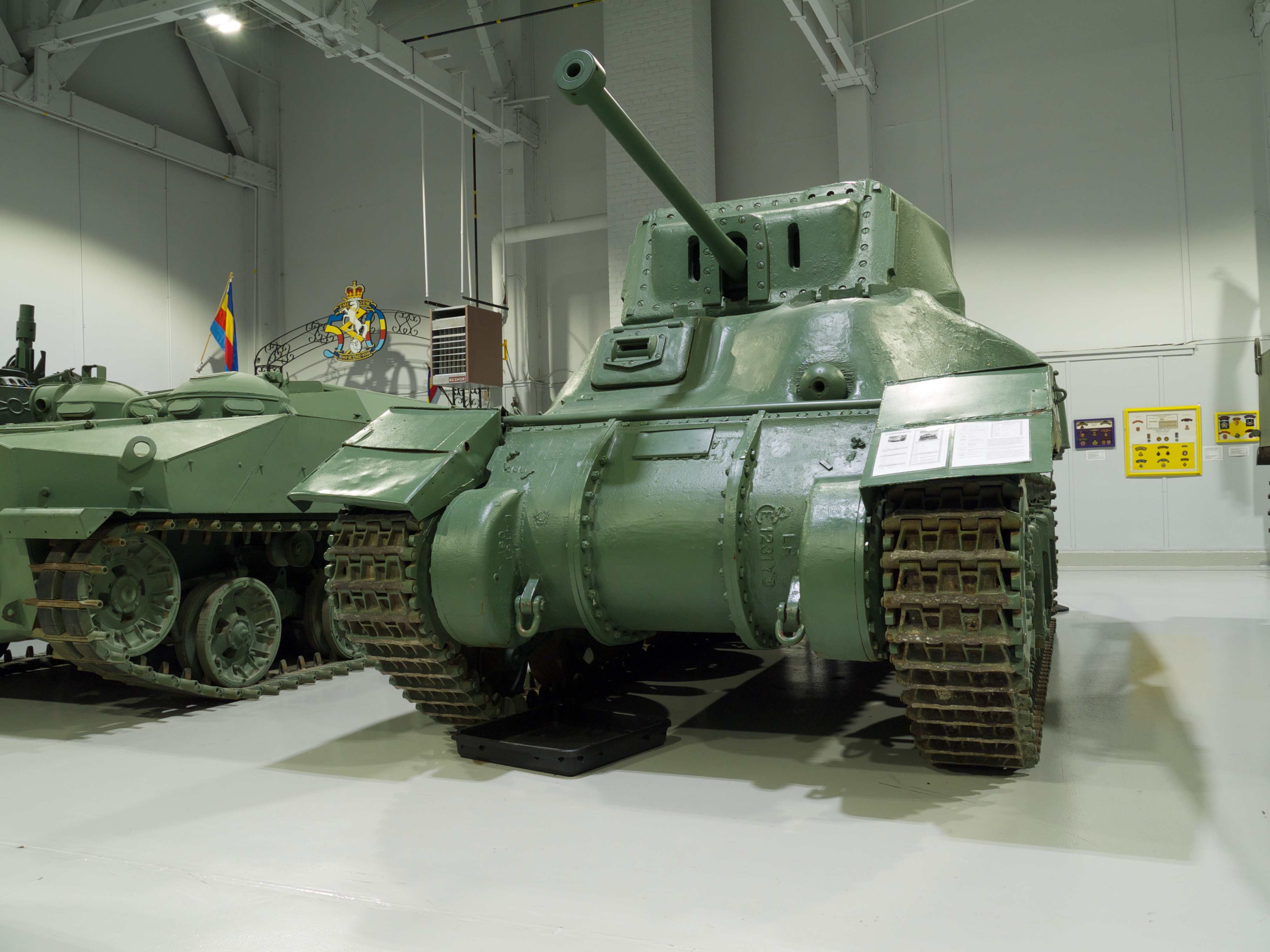 Ram Mk. II (late production) tank at Base Borden Military Museum.